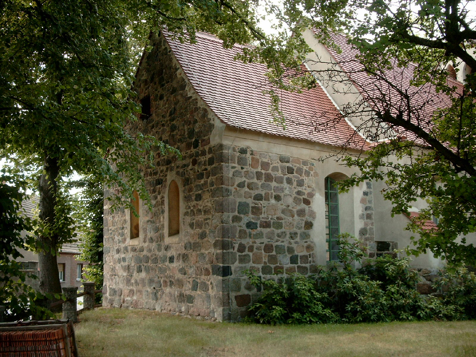 Rural church of Hohenahlsdorf, Gem. Niederer Fläming, Lkr. Teltow-Fläming, Brandenburg, Germany, view from west